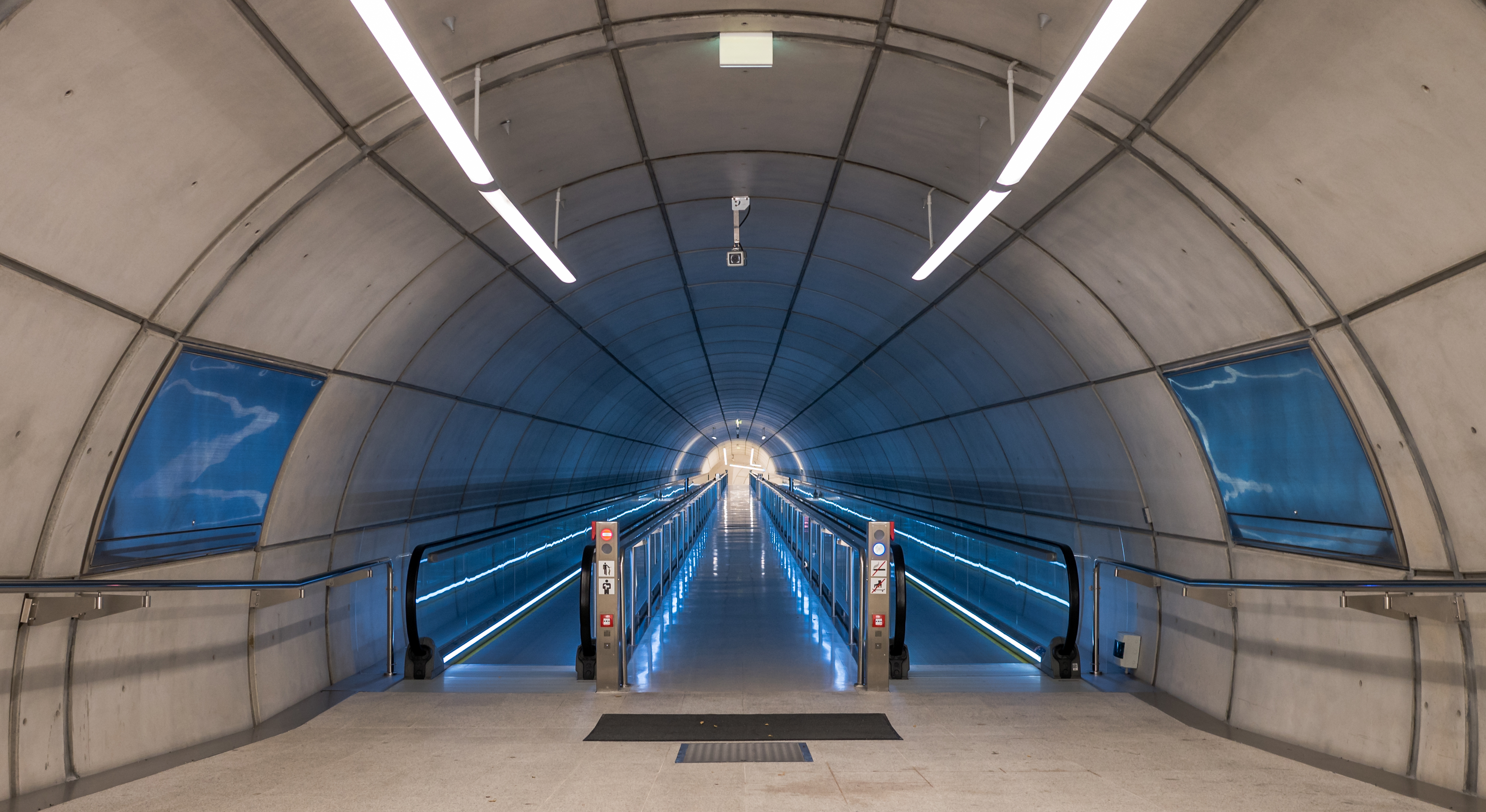 Access to the Metro Bilbao and Euskotren station of Uribarri. Bilbao, Biscay, Basque Country, Spain